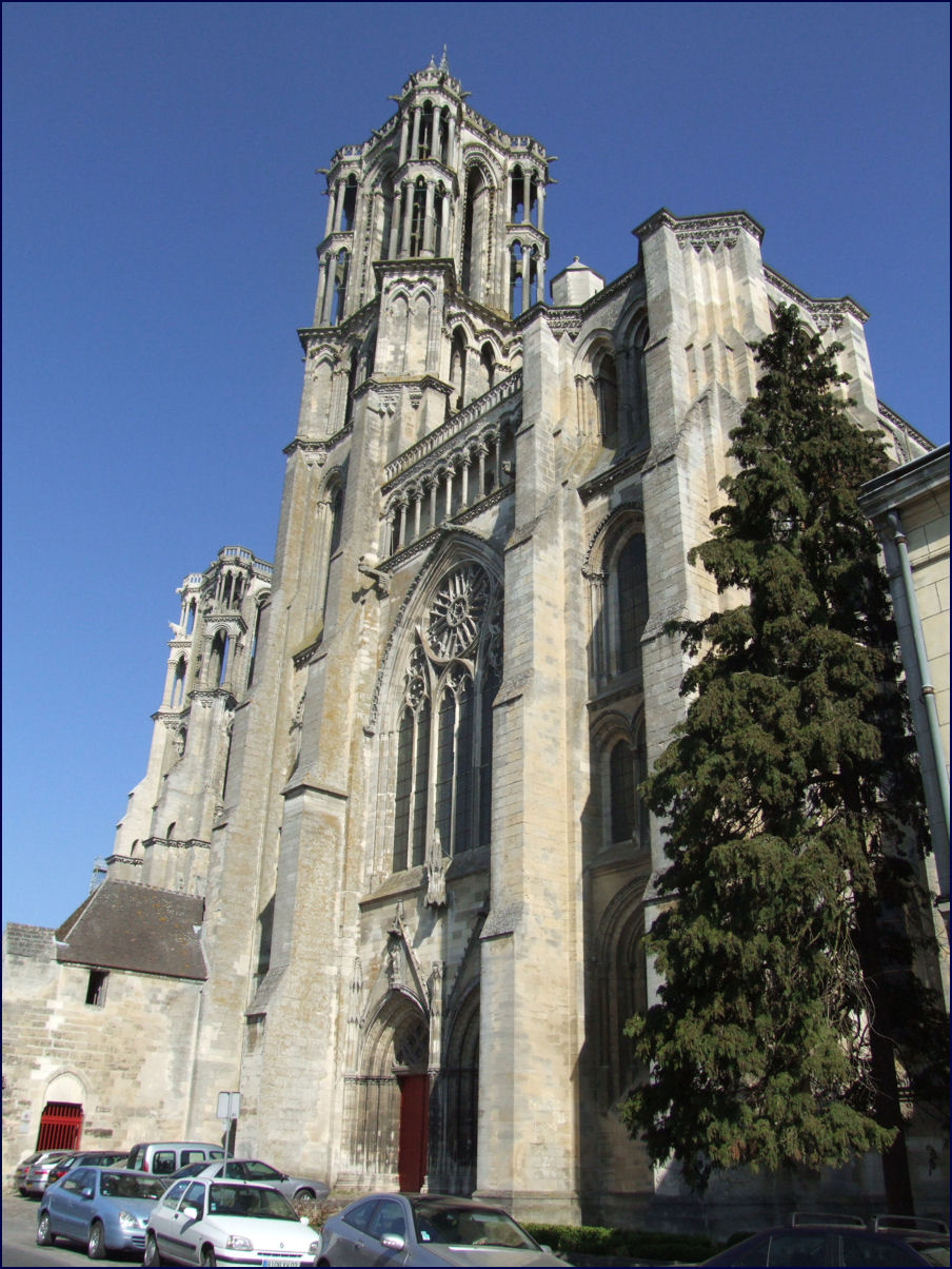 Cathedral Notre Dame, Laon, France